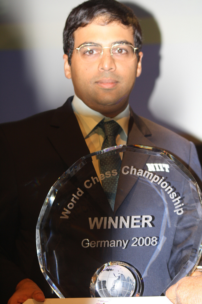 GM Viswanathan Anand India, Chess World Championship Bonn 2008